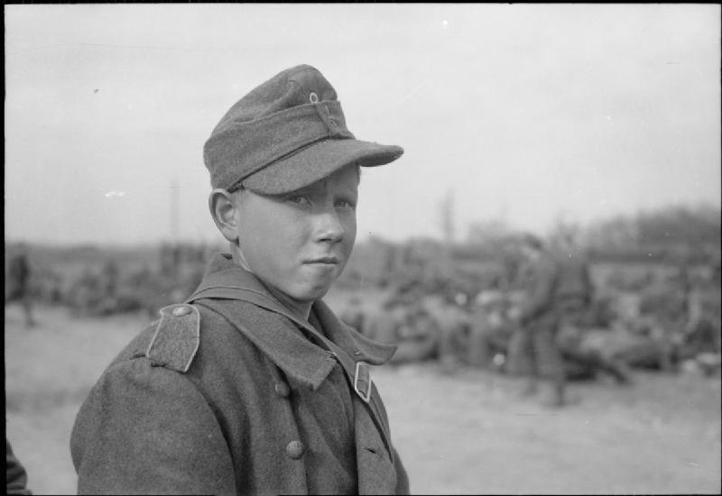 The British Army in North-west Europe 1944-45 Teenage German POW captured east of the Rhine, 26 March 1945.